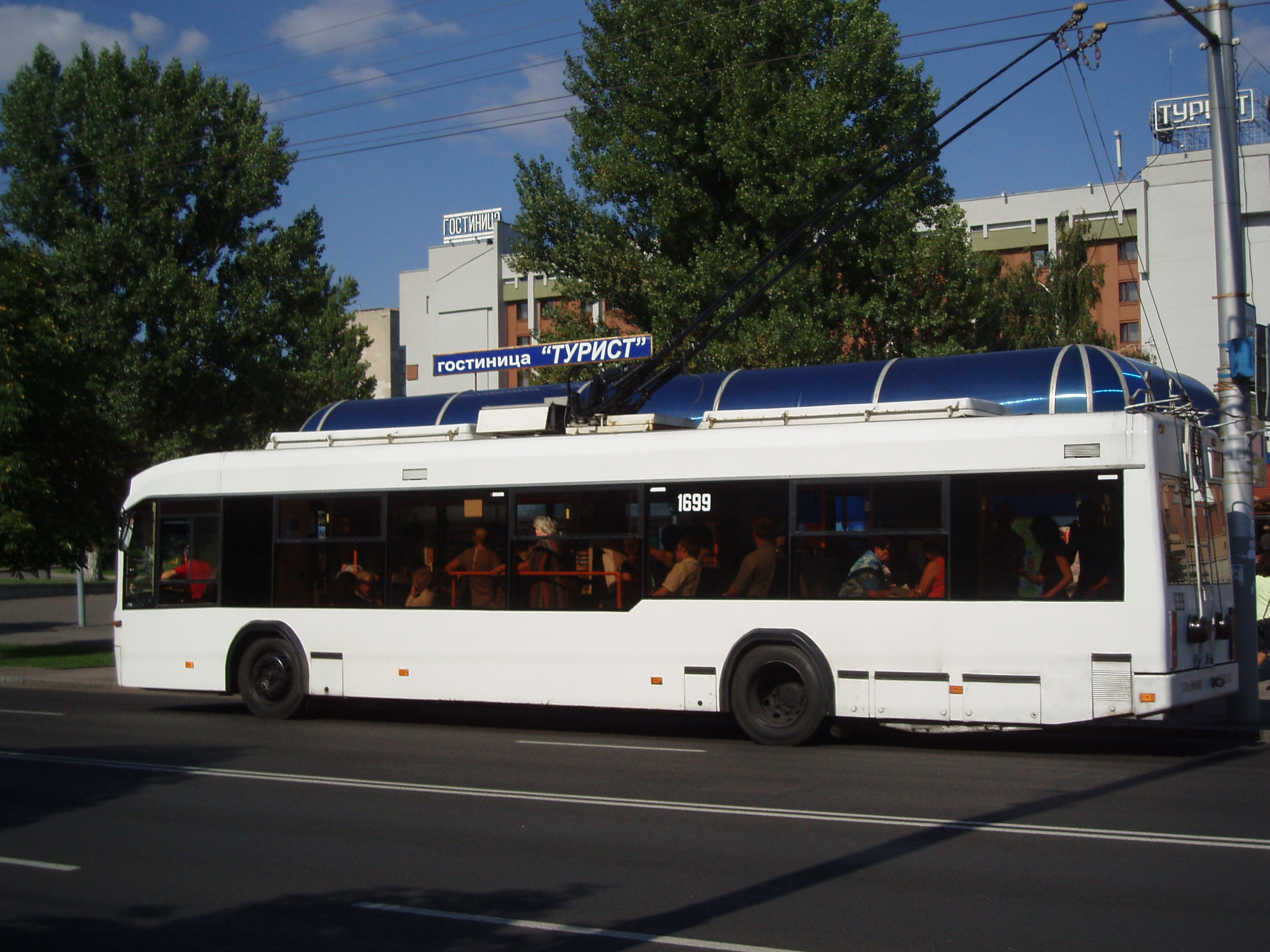 Trolleybus in Homel, Belarus